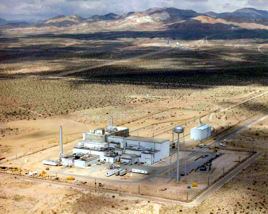 Nevada Test Site. Engine Maintenance Assembly and Disassembly (EMAD) Facility.